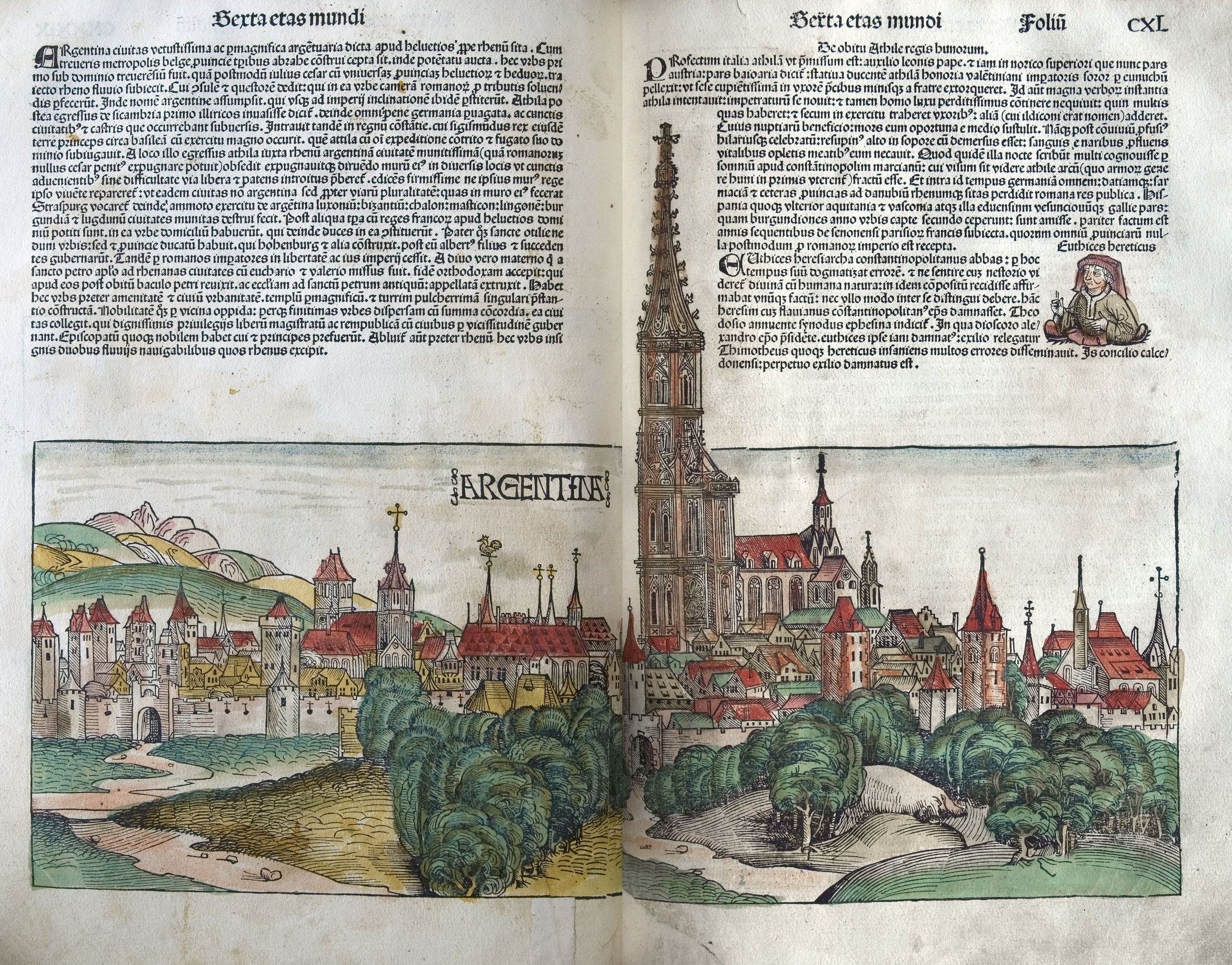 Verso CXXXIX and recto CXL of Strasburg/Argentina from the Nuremberg Chronicle of Hartmann Schedel: "Liber cronicarum: cum figuris et ymagibus ab inicio mundi". Coloured woodcuts donated by Beloit College.